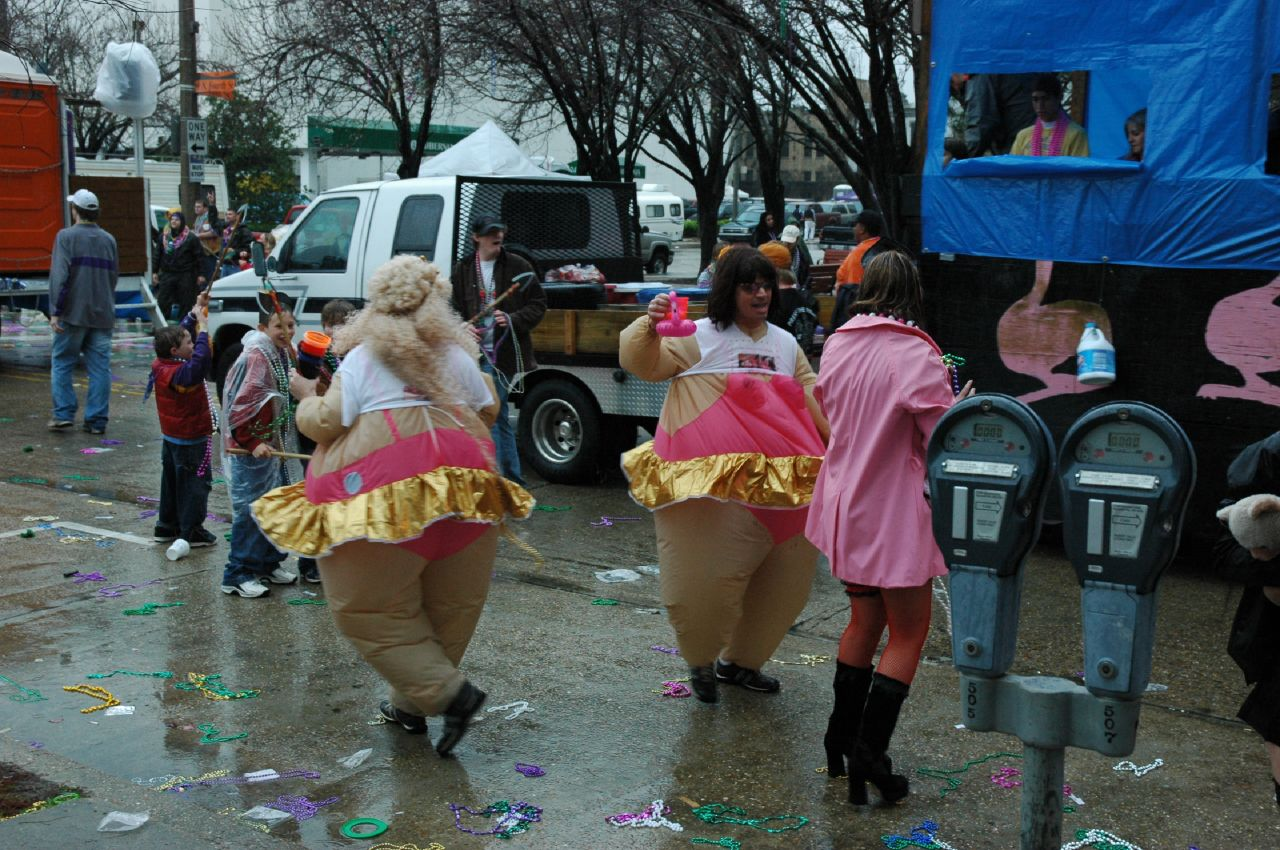 Costumed revelers a the Spanish Town Parade, Mardi Gras in Baton Rouge, Louisiana.